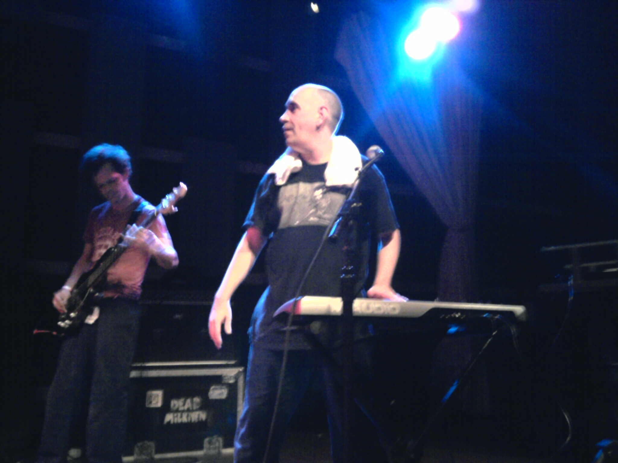 Dead Milkmen live at World Cafe live, Philadelphia, 9/24/10